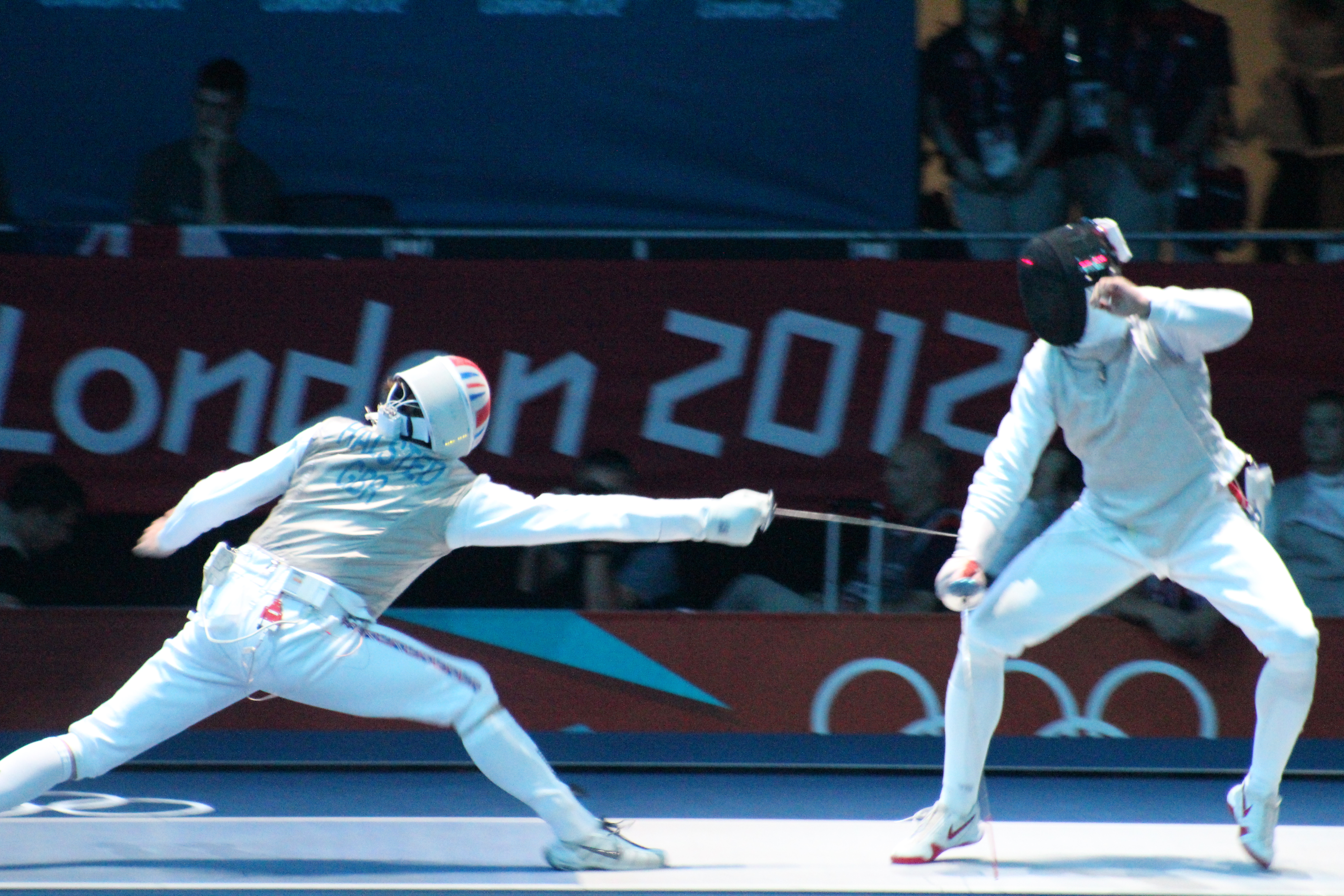 London Olympics 2012. Fencing (Men's Team foil). Also some shots of the area around the Excel centre and the view from the Emirates Air Line cable car